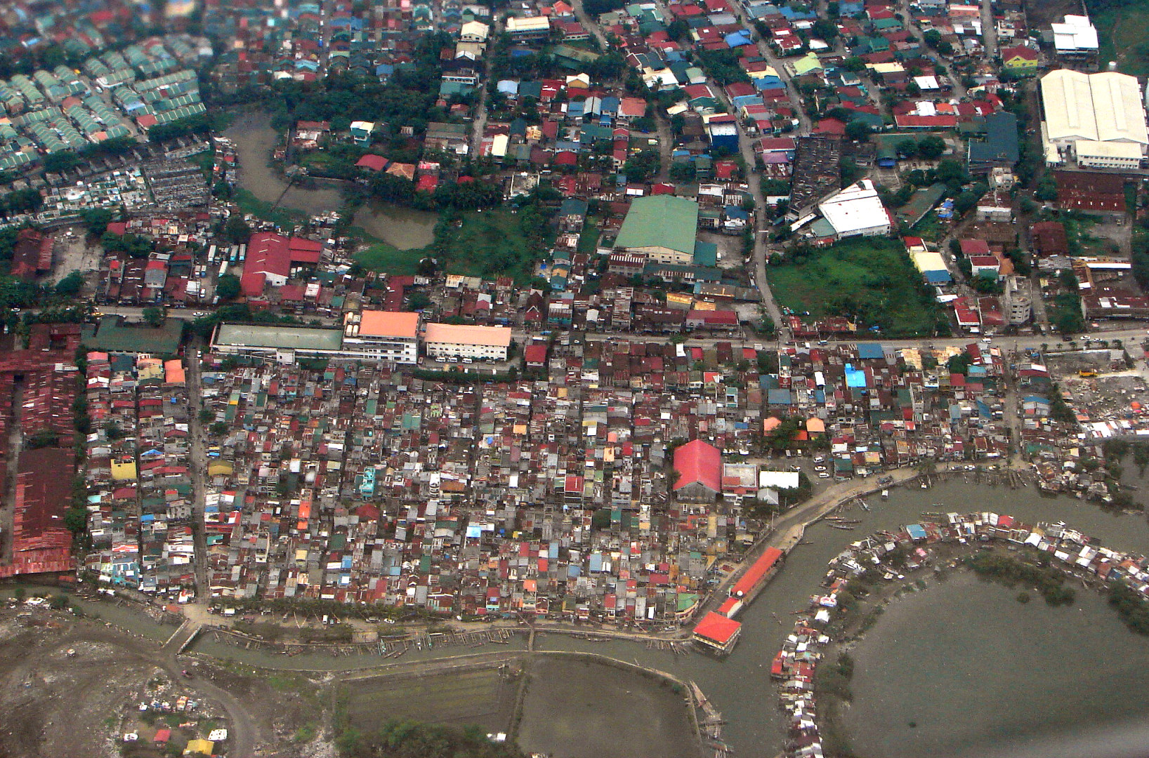 Aerial view of Las Piñas City, the Philippines